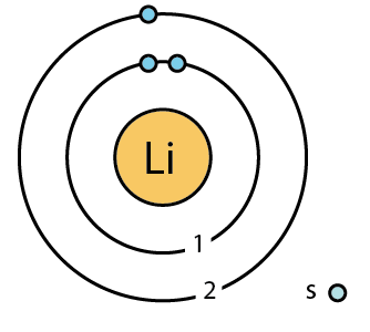 lithium (Li) 3 Bohr model